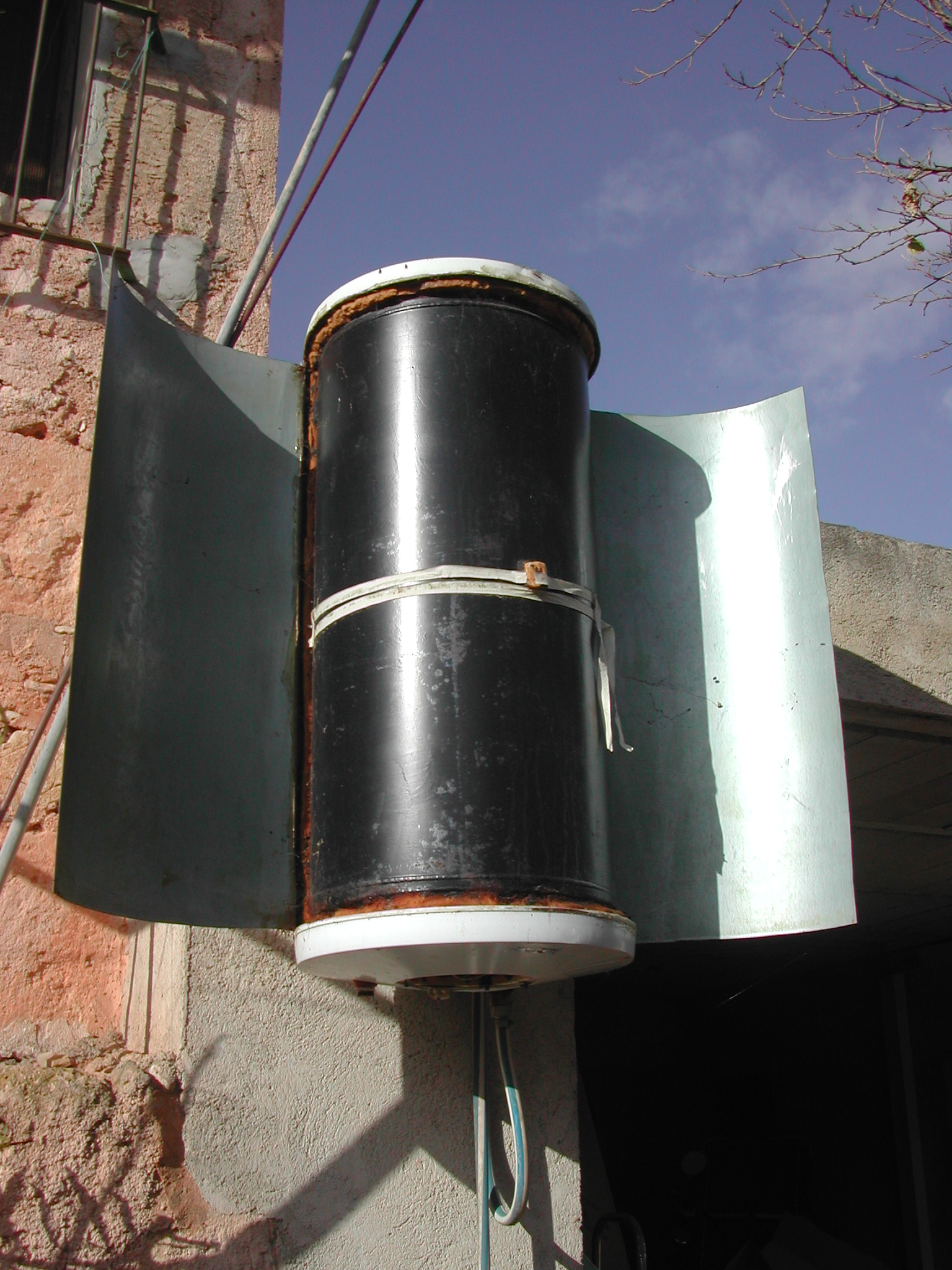 Self-made solar collector/water boiler, Binissalem, Mallorca.